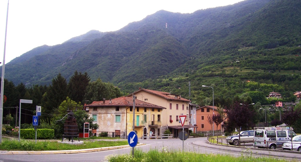 Enter, Losine, Val Camonica